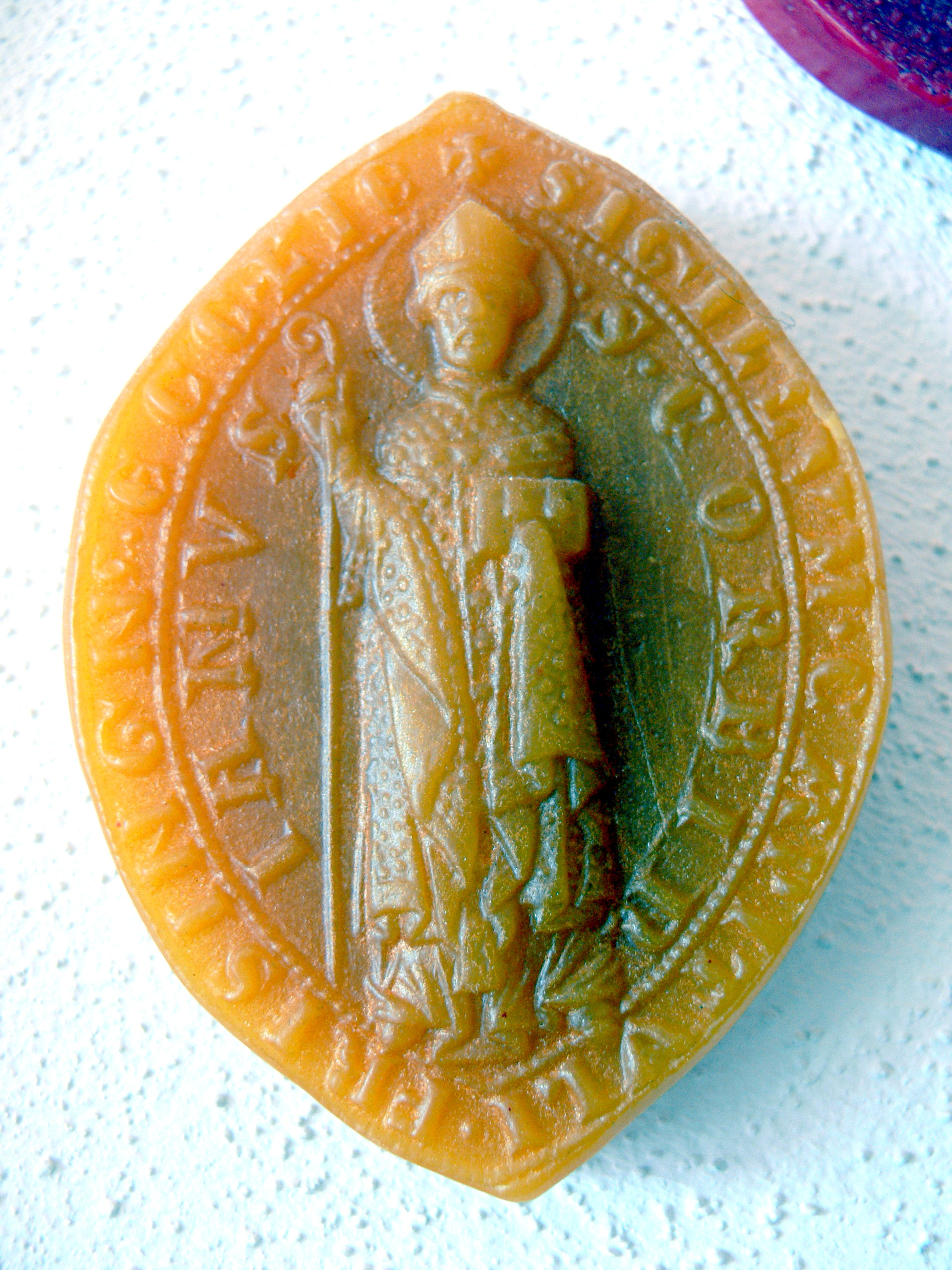 Seal of the Cathedral´s chapter of Freising 1327